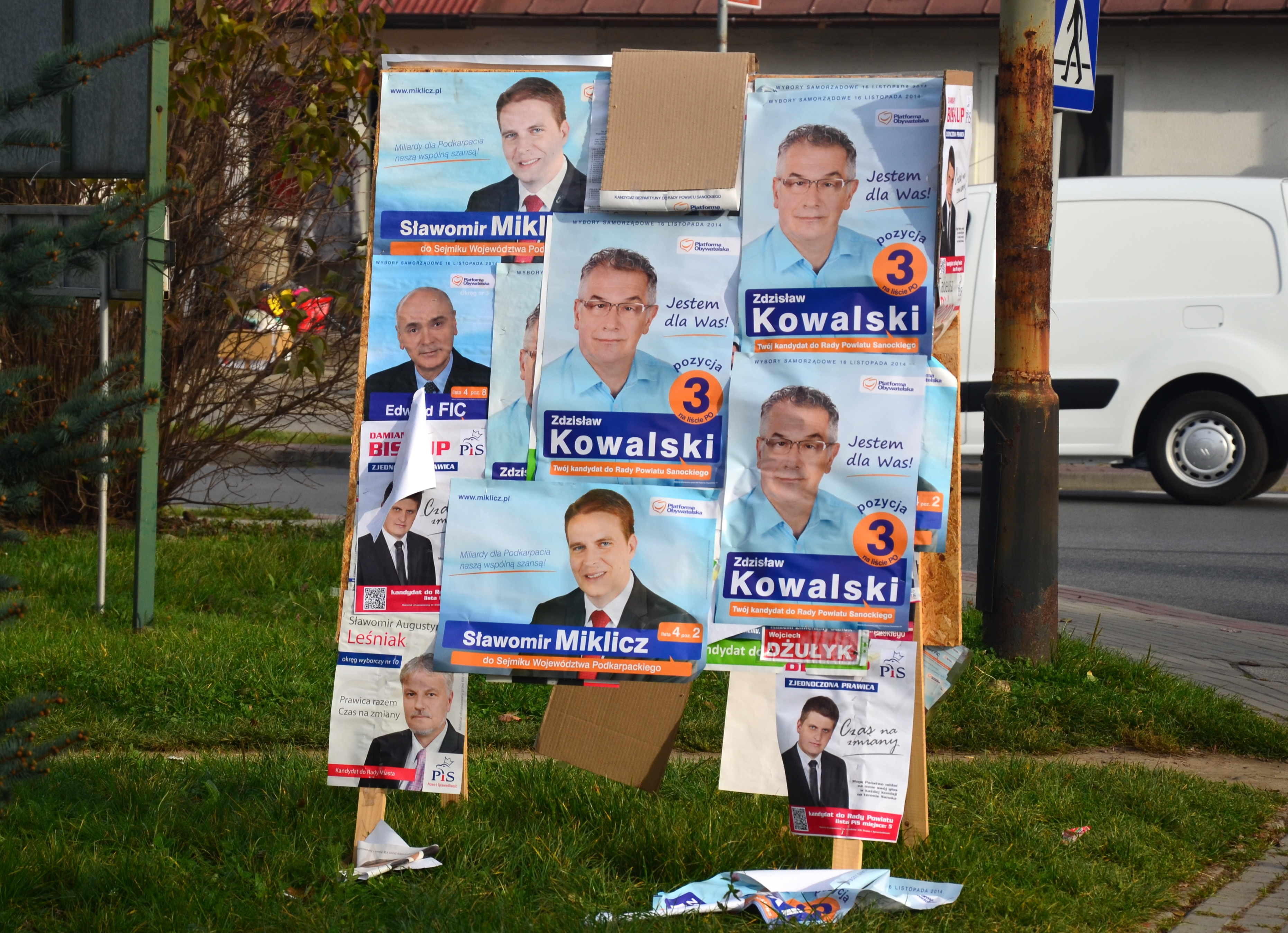 02014 Kowalski